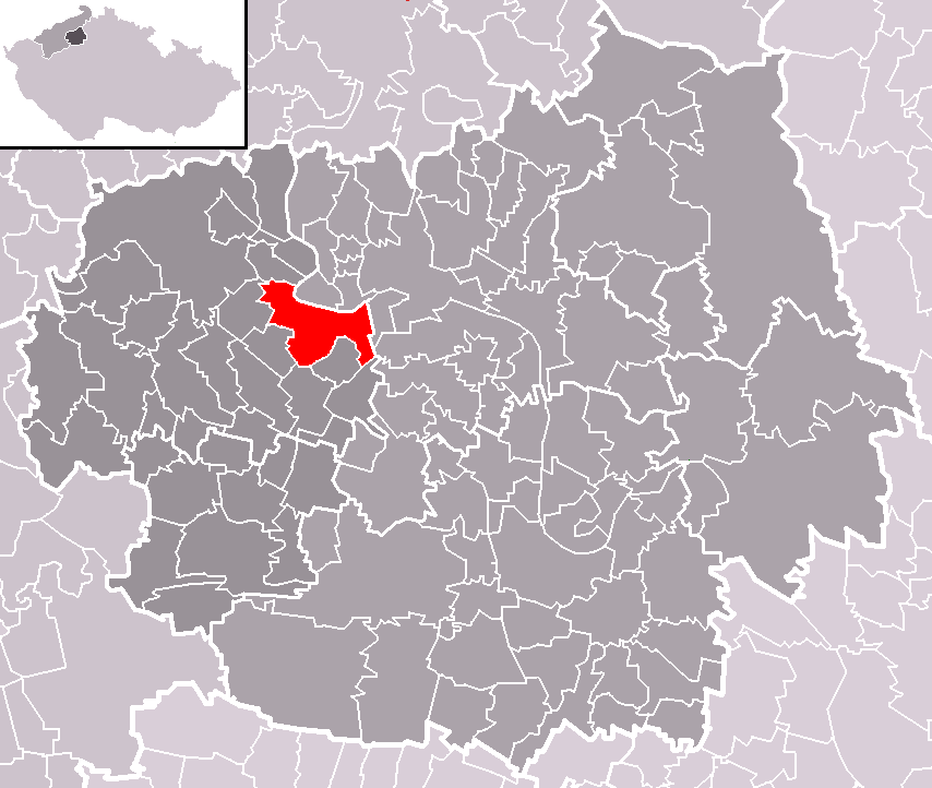 Location of Lovosice town within Litoměřice District and administrative area of Lovosice as a Municipality with Extended Competence.